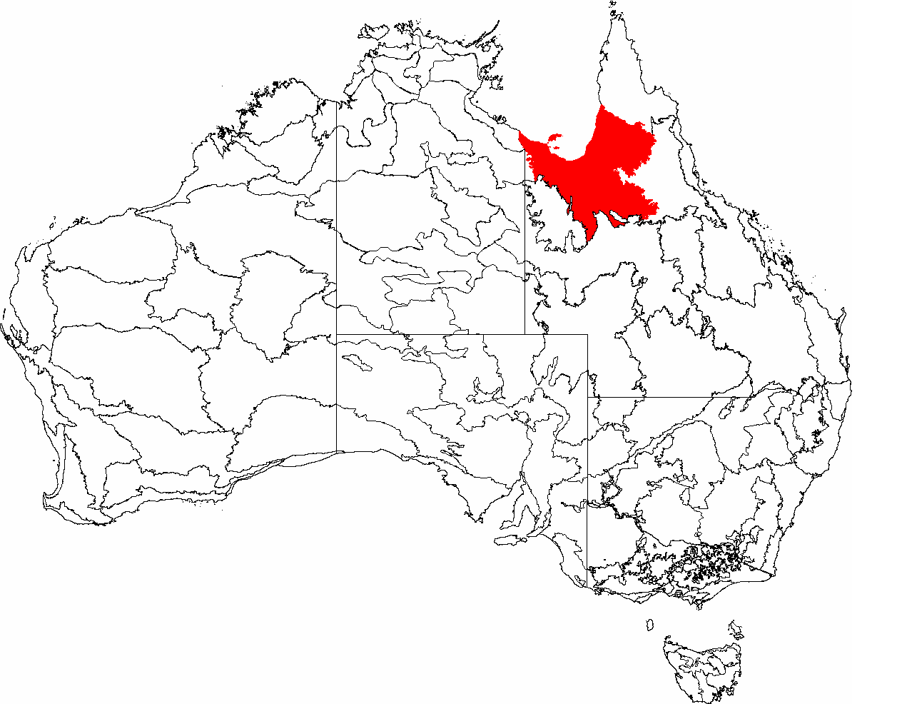 This is a map of the Interim Biogeographic Regionalisation of Australia (IBRA), with state boundaries overlaid. The Gulf Plains region is shown in red.